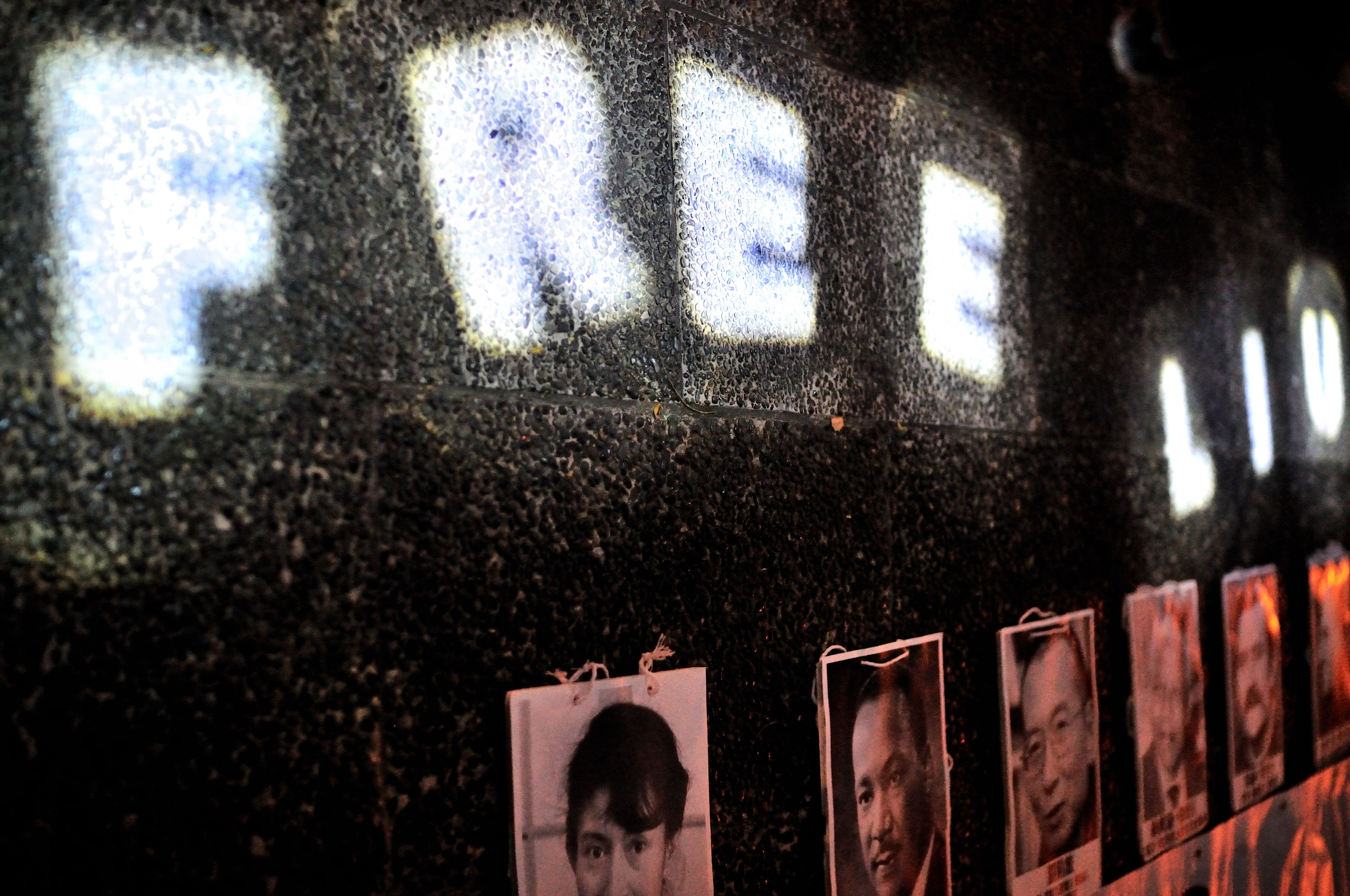 10 December 2010 Chater garden event in Hong Kong for Liu Xiaobo ceremony